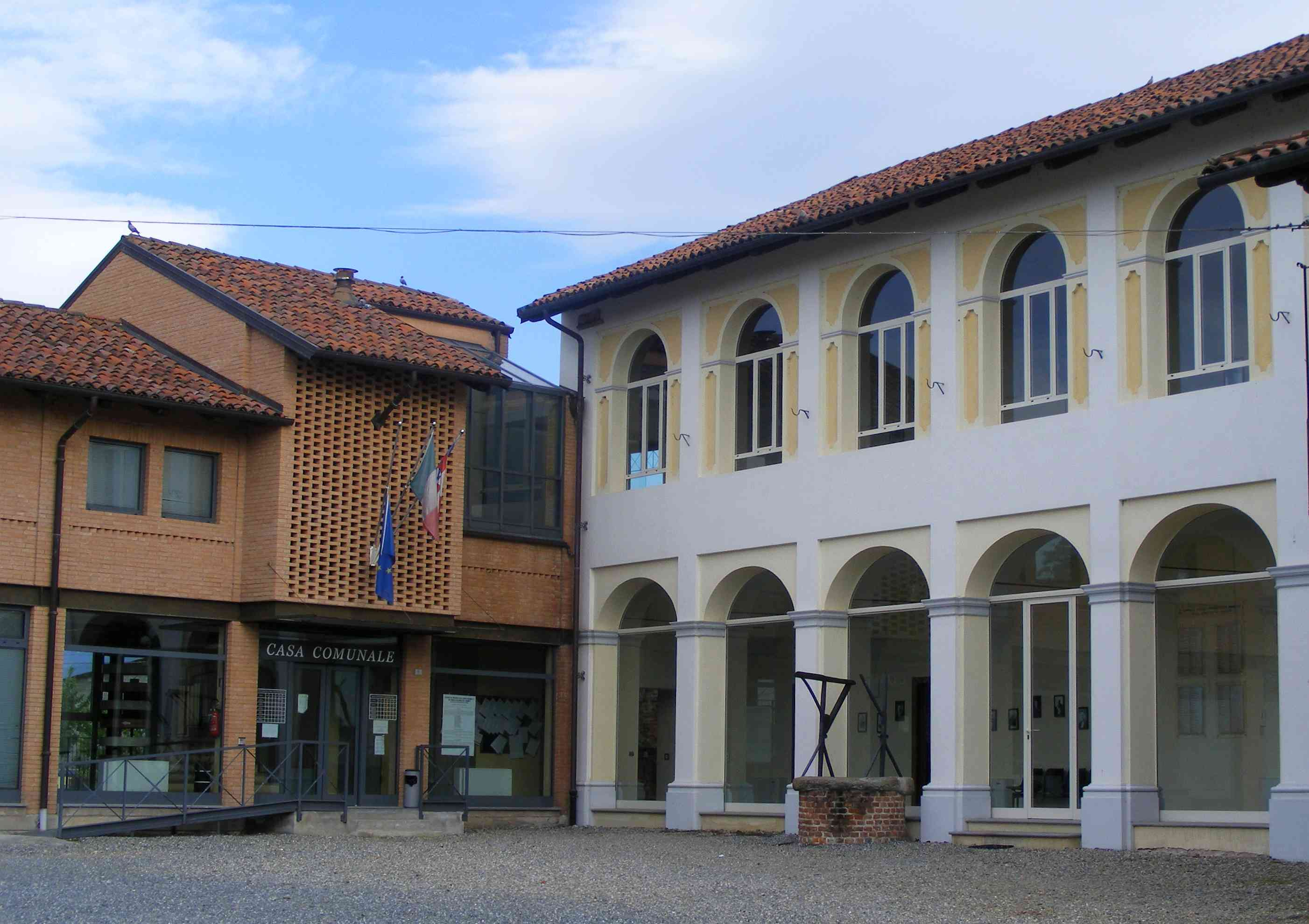 Verrone (BI, Italy): town hall